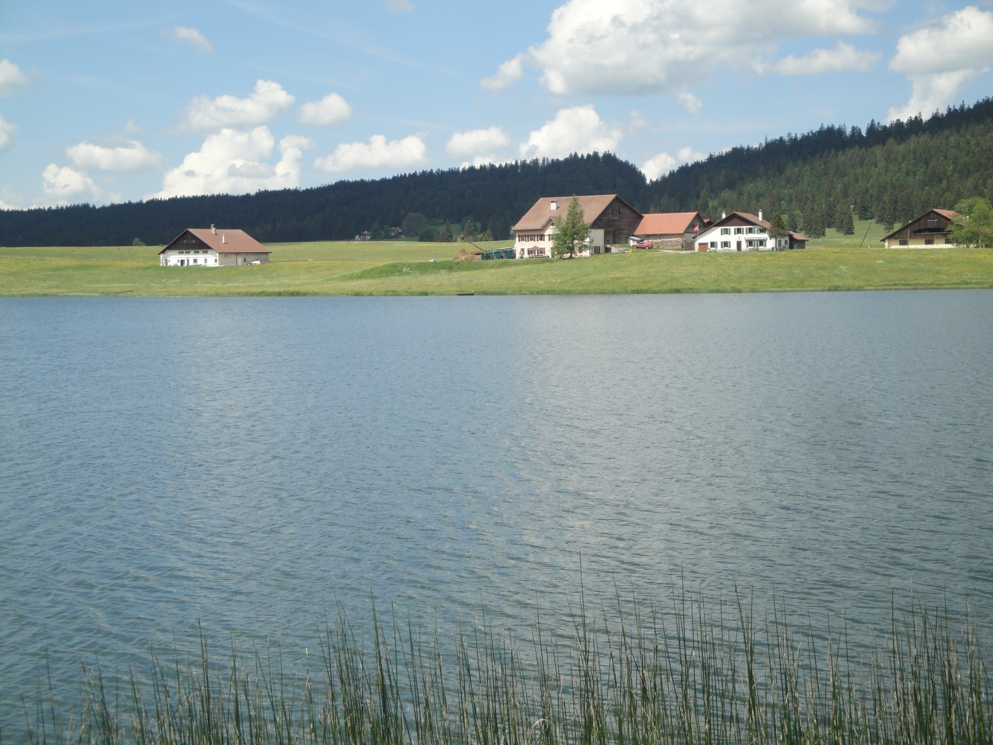 Lac des Taillères, La Brévine (NE), Switzerland